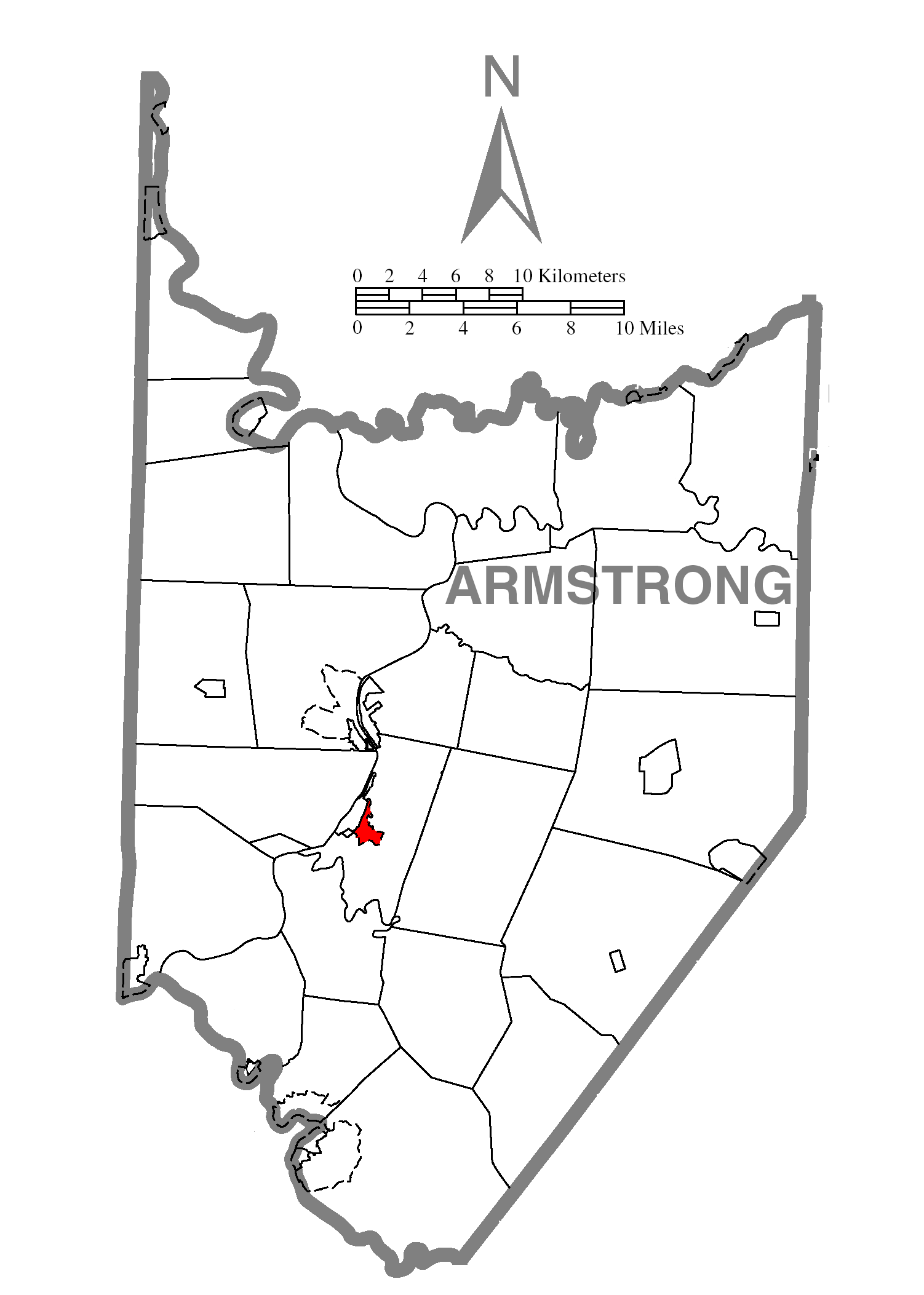 A map of Armstrong County showing Lenape Heights, Pennsylvania (alternate) highlighted on the map.